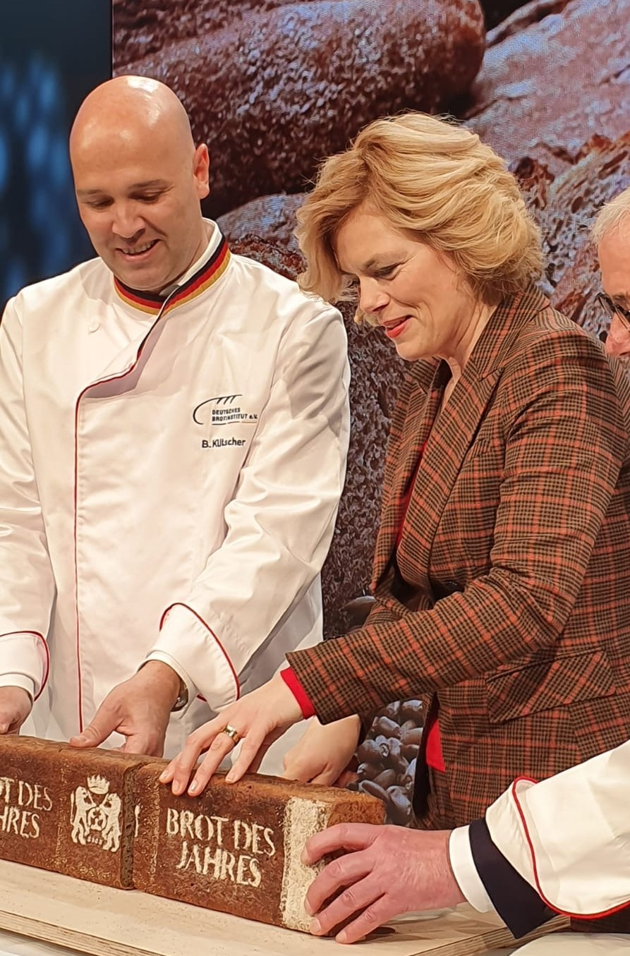 Official cutting of the Bread of the Year 2020